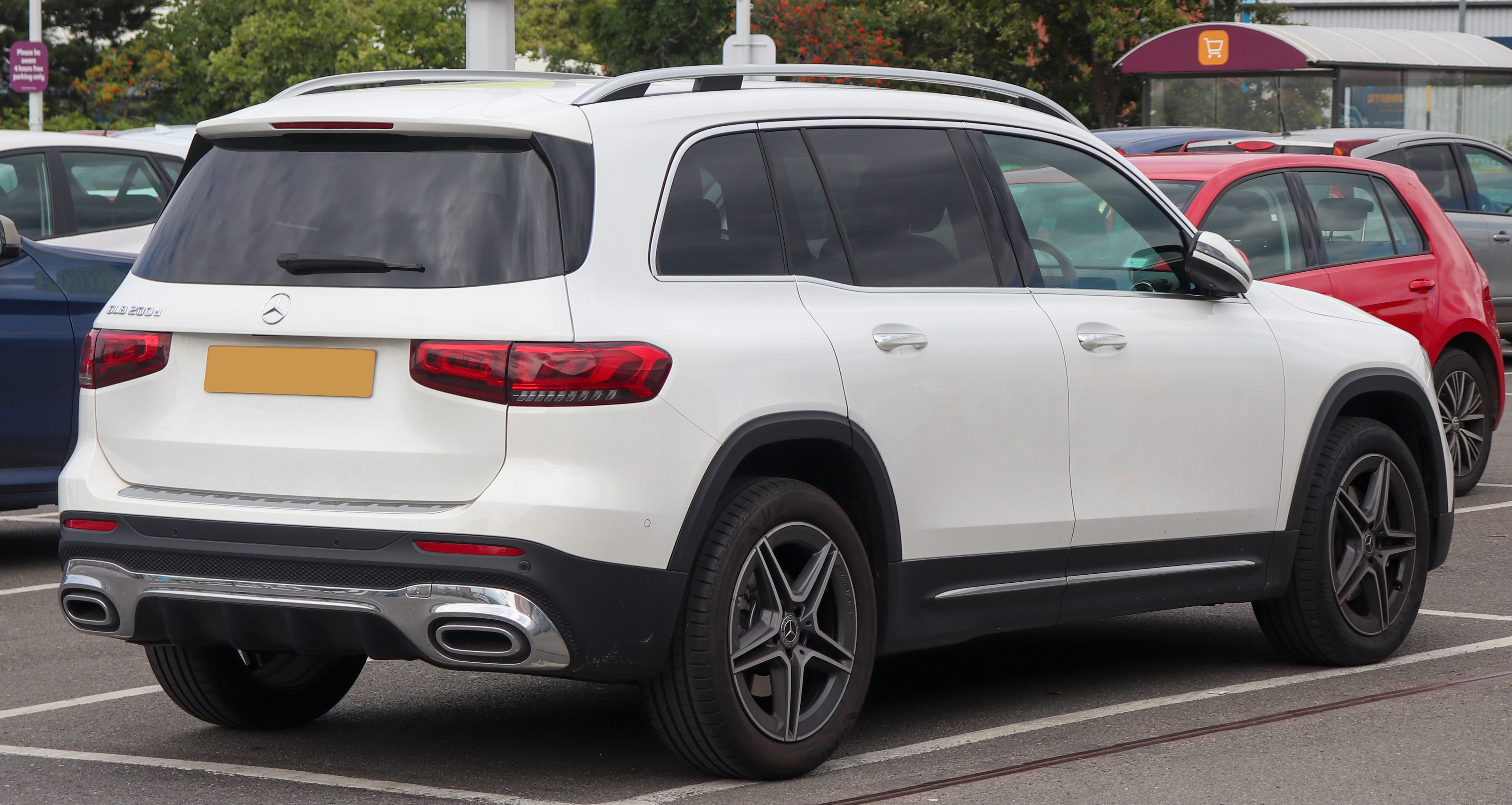 2020 Mercedes-Benz GLB 200 AMG Line Premium 2.0 Rear Taken in Leamington Spa